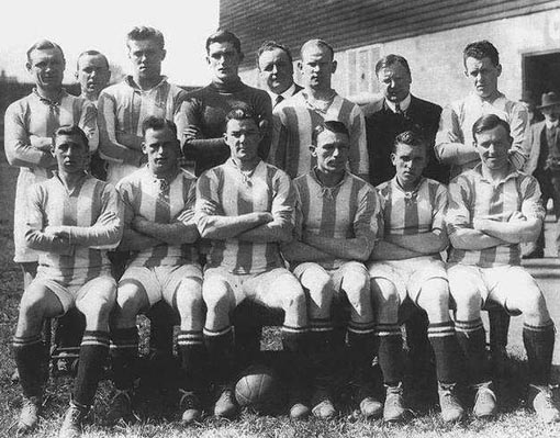 Leeds United A.F.C.'s 1st League Team